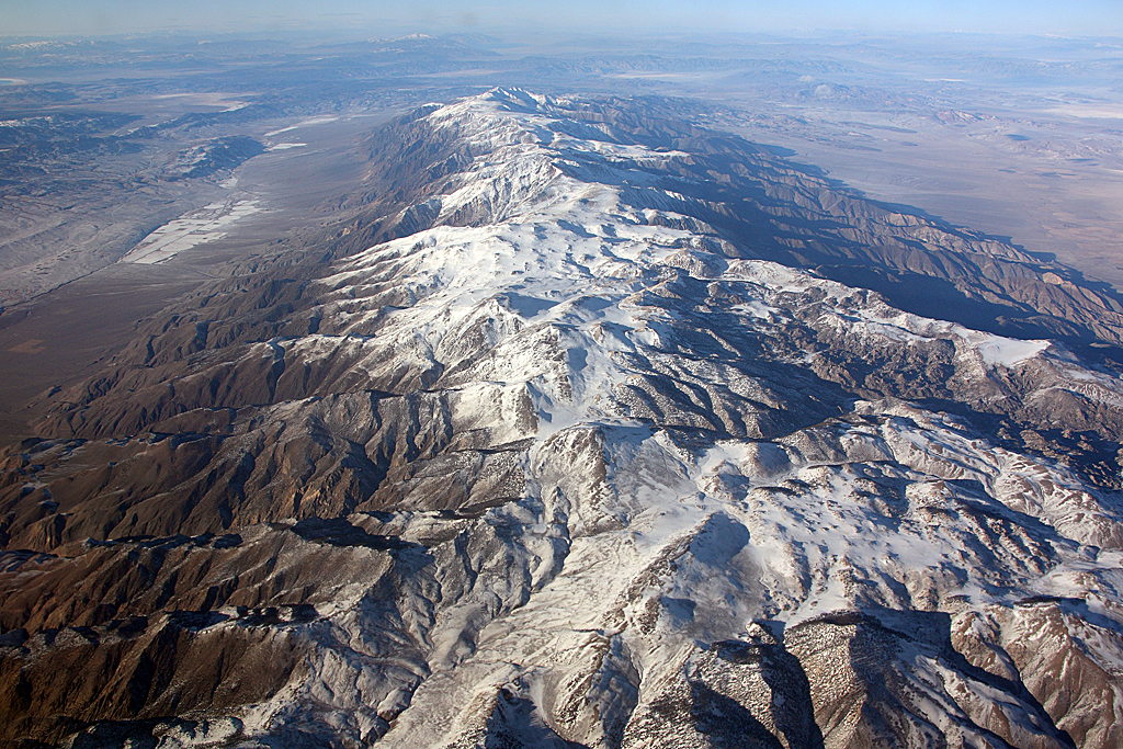 White Mountains. On route from Oakland to Las Vegas. Random shots during winter vacation. Dec 20-29, 2008.